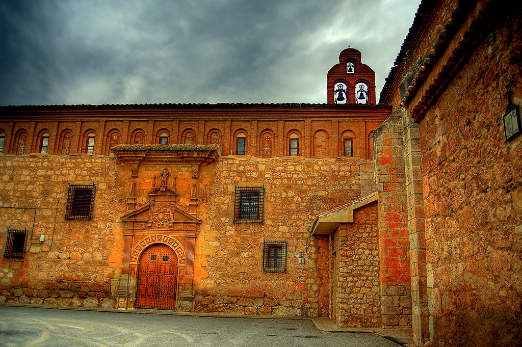 Poor Clares monastery in Báguena, Aragón, Spain.